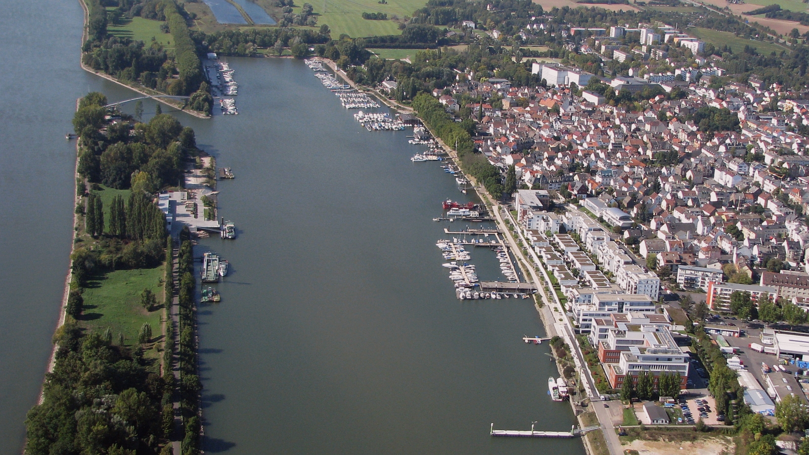 Aerial photograph of river Rhein at Wiesbaden-Schierstein with Schierstein Port photo 2008 Wolfgang Pehlemann Wiesbaden IMG_0252.jpg